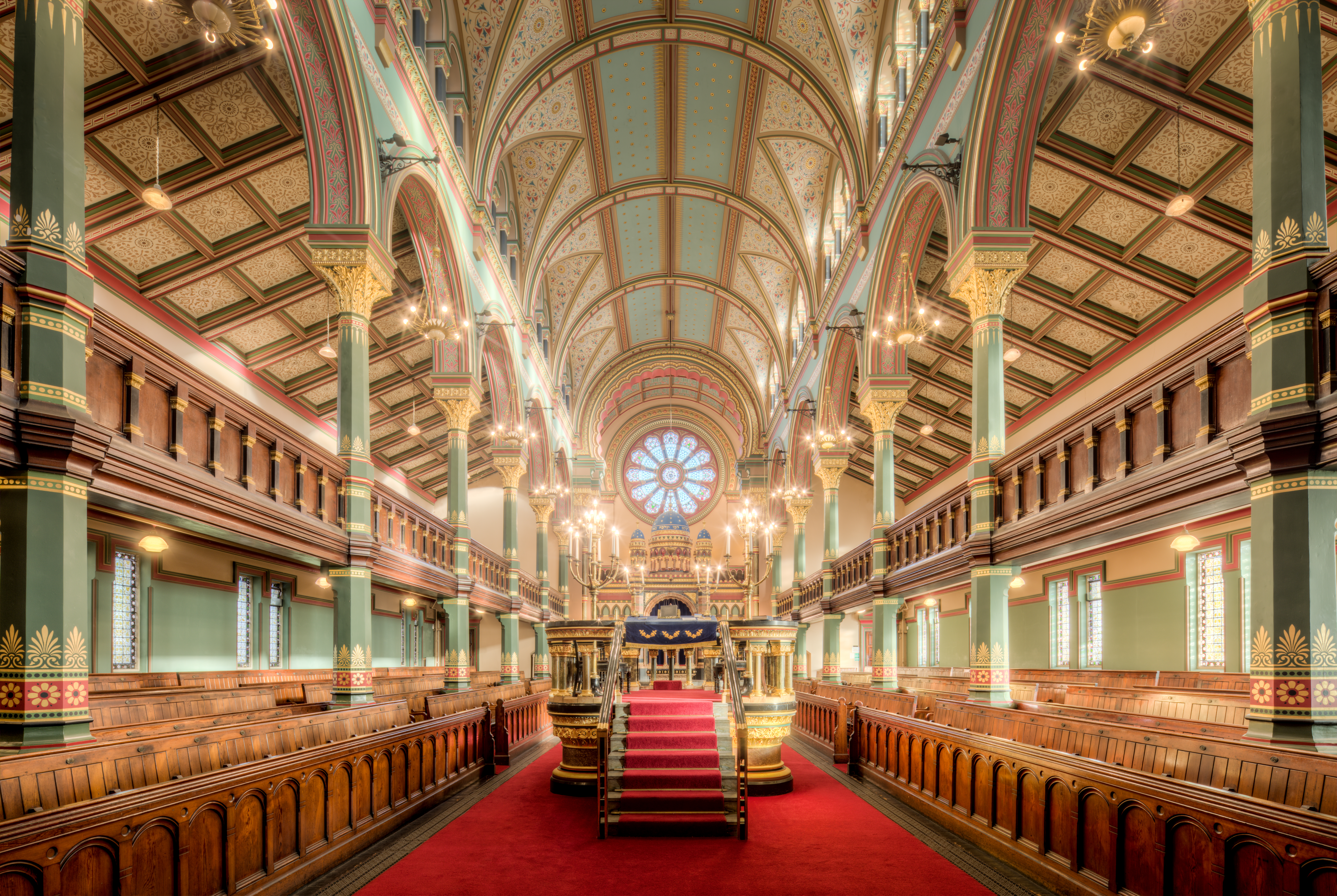 Here is an hdr photograph taken from the nave inside Princes Road Synagogue. Located in Liverpool, Mersyside, England, UK. (Taken with kind permission of the administration)